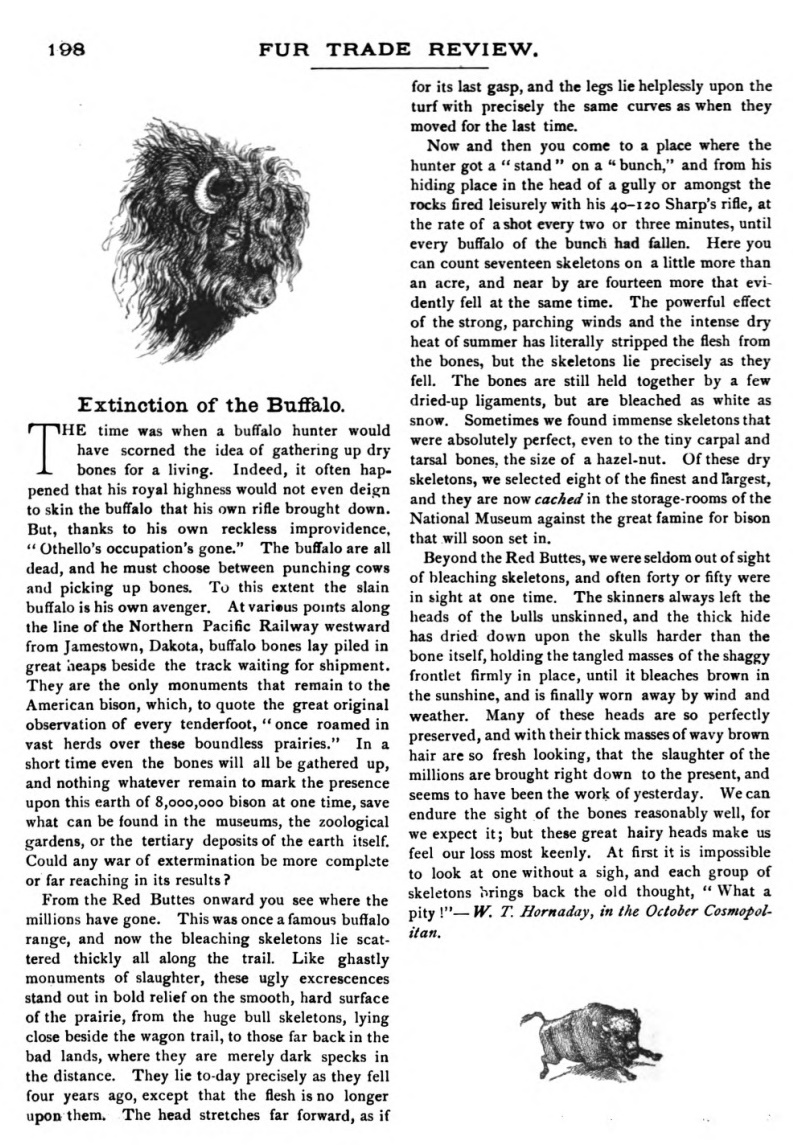 Article in the Fur Trade Review about the extinction of the buffalo